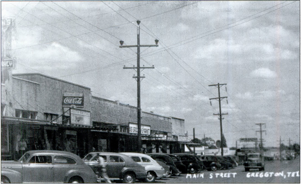 Main thoroughfare, which was also old U.S. Route 80, in Greggton, Texas circa 1947 as depicted in a postcard.